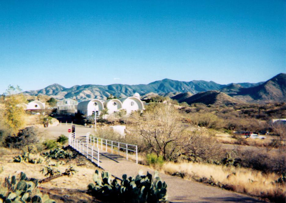 Biosphere 2 area